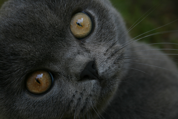 Close up of a young British Blue male showing the copper coloured eyes typical of the breed.